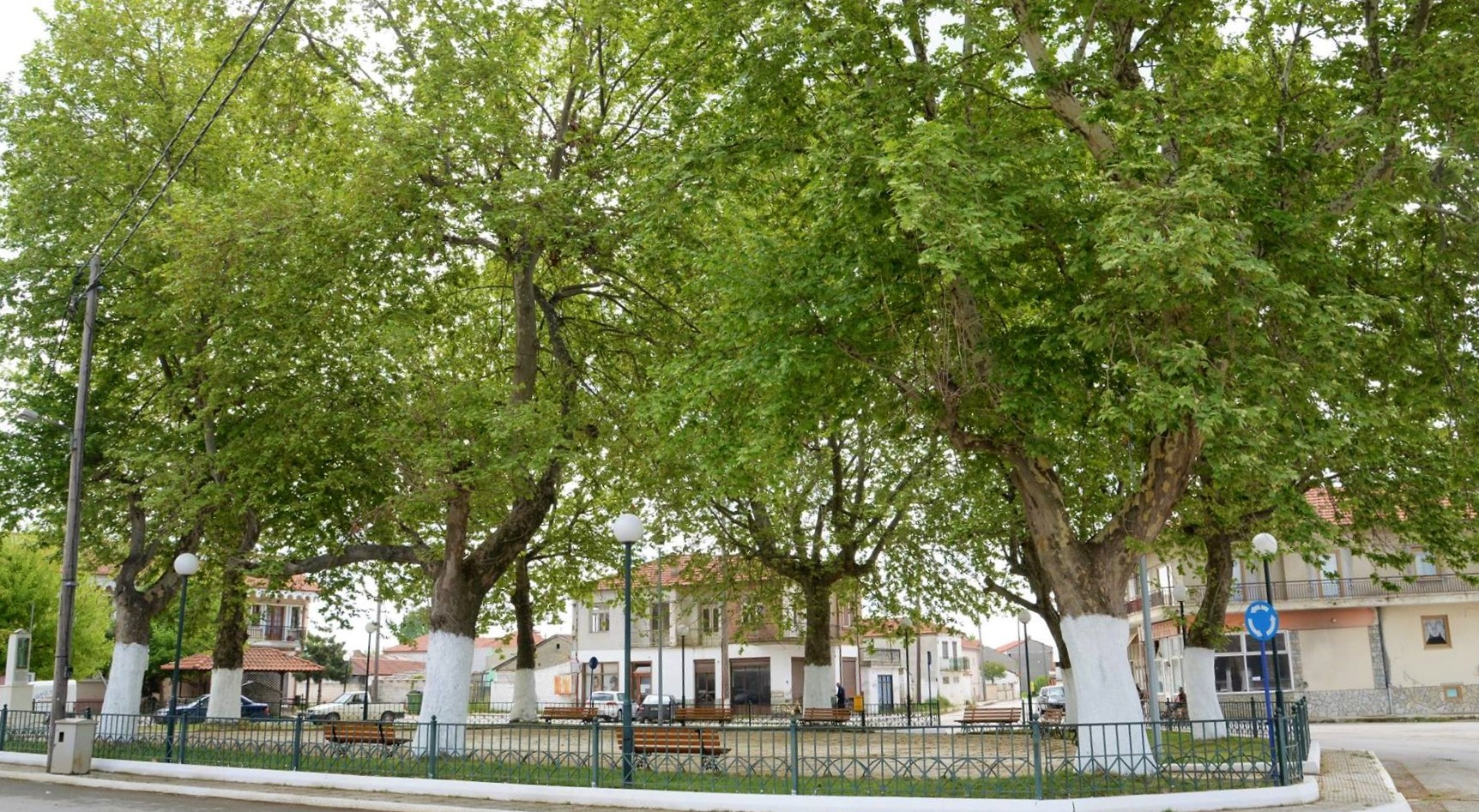 Central Square of Papayiannis, Florina